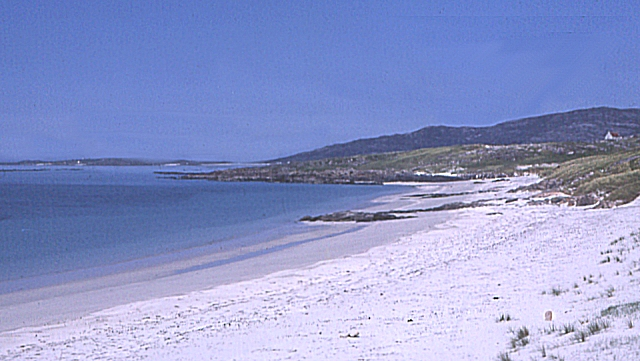 Coilleag a'Phrionnsa (Prince's Beach) This beach is the spot where Prince Charles Edward Stewart (Bonnie Prince Charlie, or the 'Young Pretender' to his opponents) first set foot on British soil in 1745.